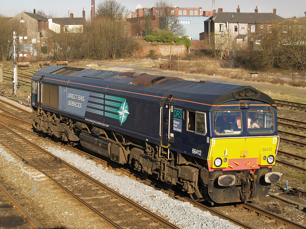 Direct Rail Services Limited (leased from Halifax Bank of Scotland) General Motors Type 5 Co-Co class 66/4 diesel-electric locomotive number 66412 of Carlisle Kingmoor TMD runs through the main crossover at Castleton East Junction signal box running the 15:40 (Additional) Heywood Ground Frame to Crewe Gresty Bridge (DRS) (0Z46). Wednesday 13th February 2008